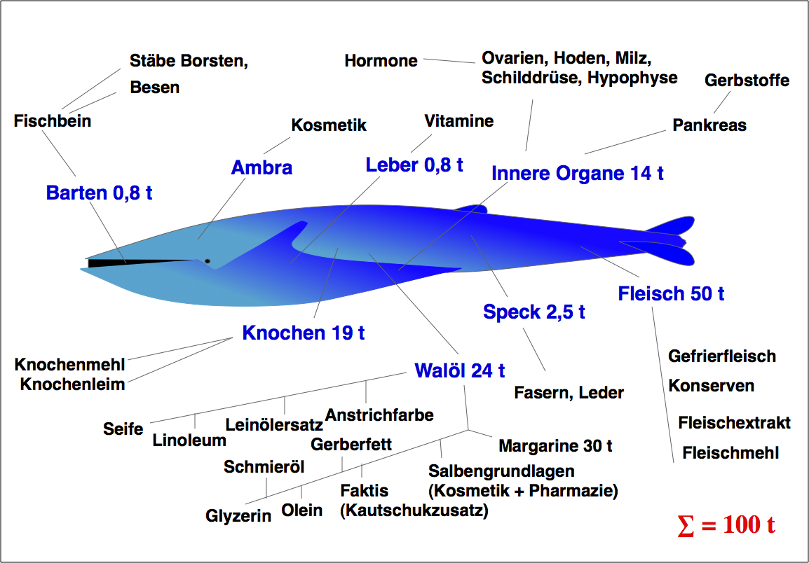 Products made from whales